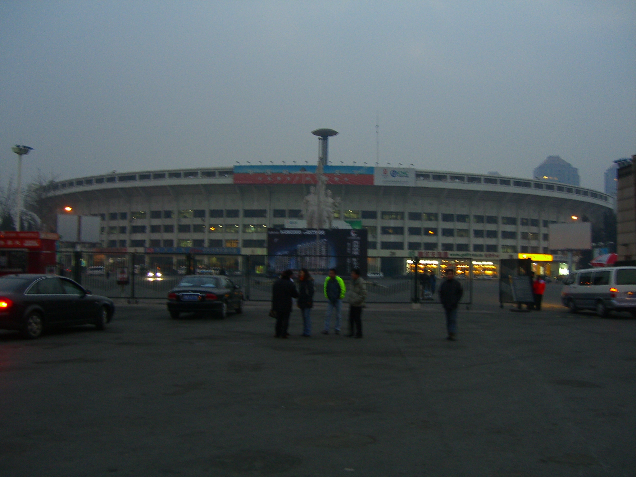 I took this photo in Dec 2005